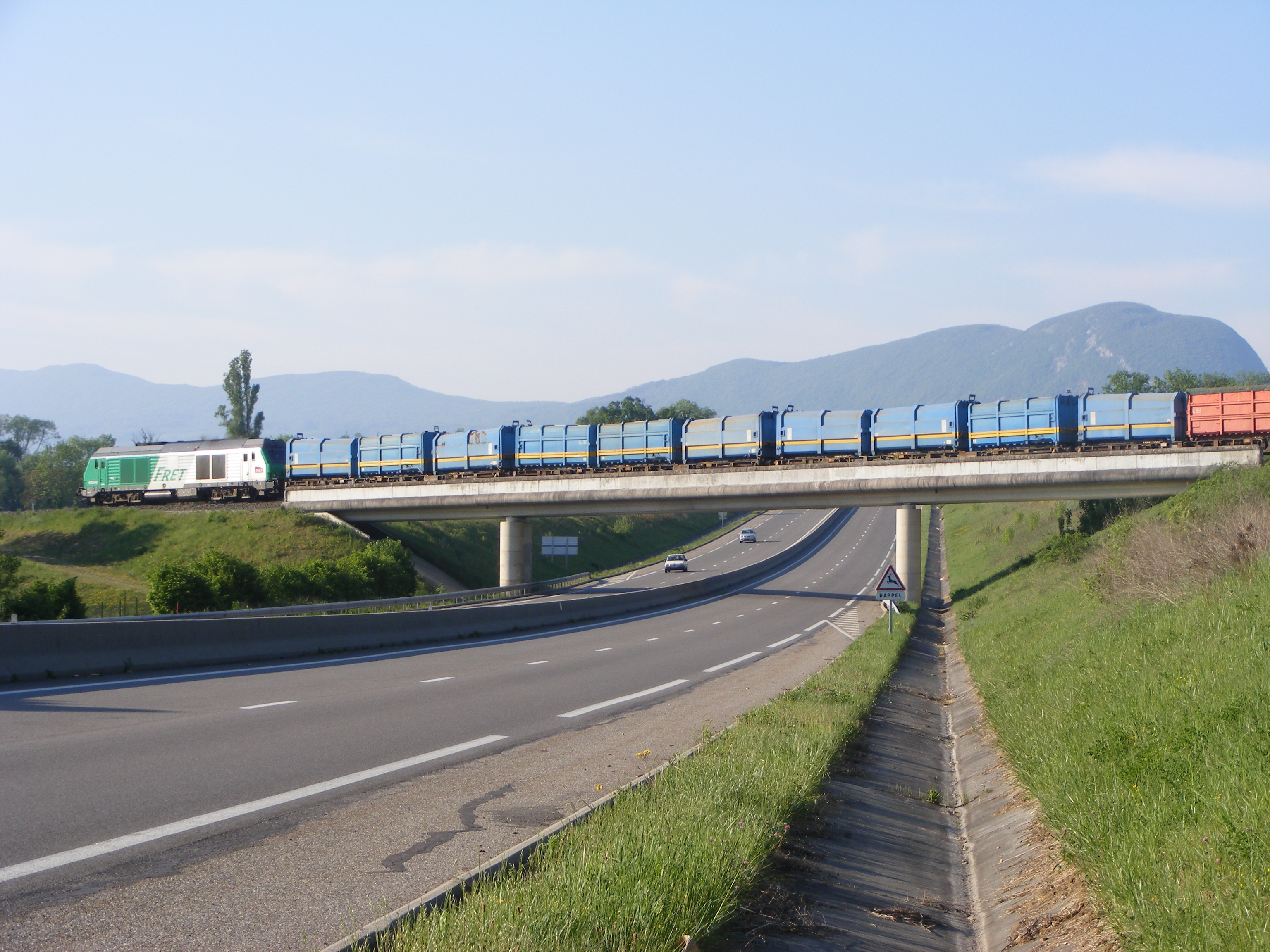 waste train crossing rd884 near Farges